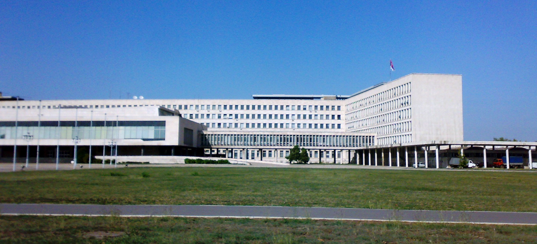 Palace of Serbia, the former Yugoslavia government headquarters, in Novi Beograd, western Belgrade, Serbia.